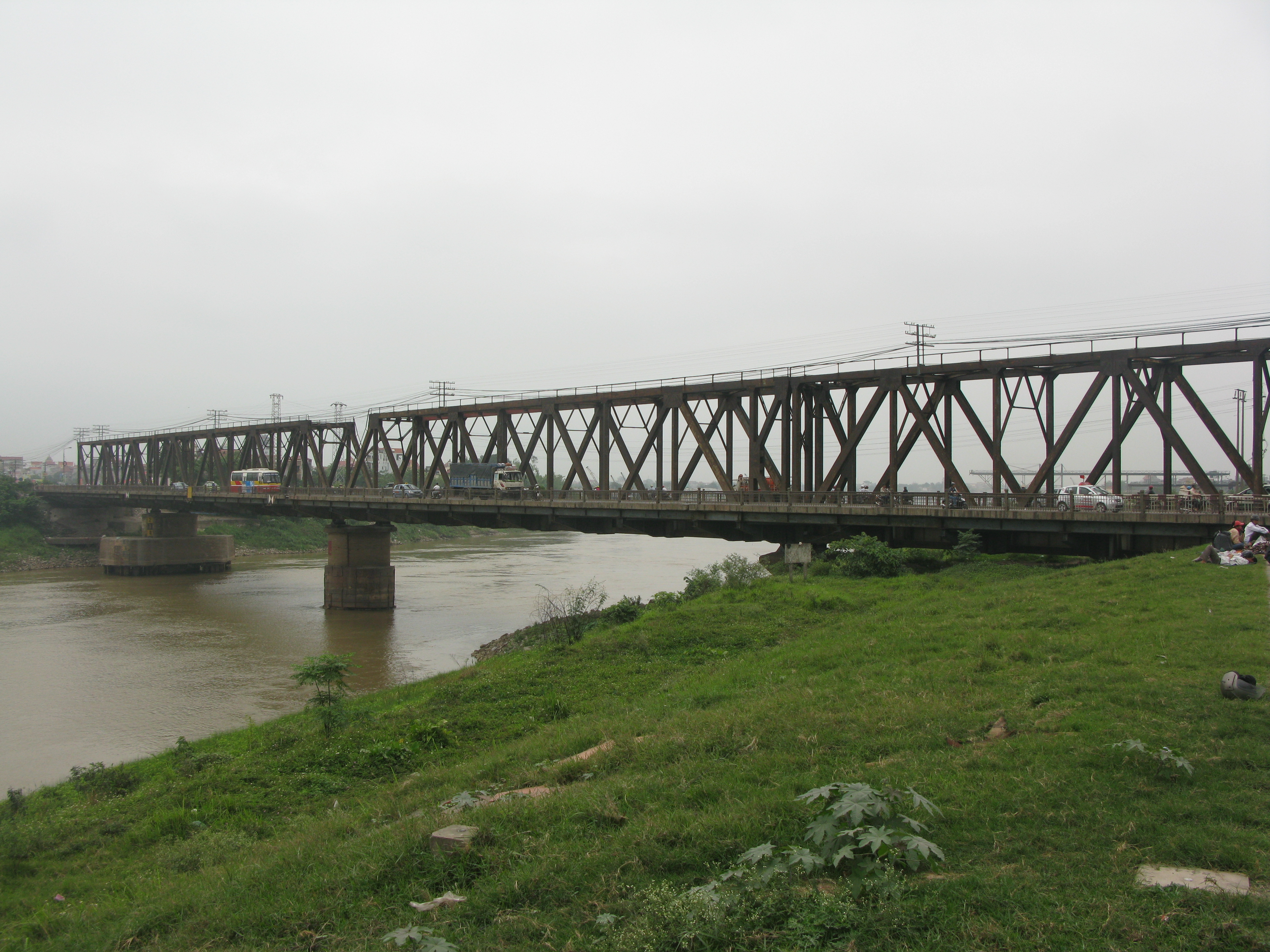 Đuống Bridge over Đuống River, Ha Noi, Viet Nam